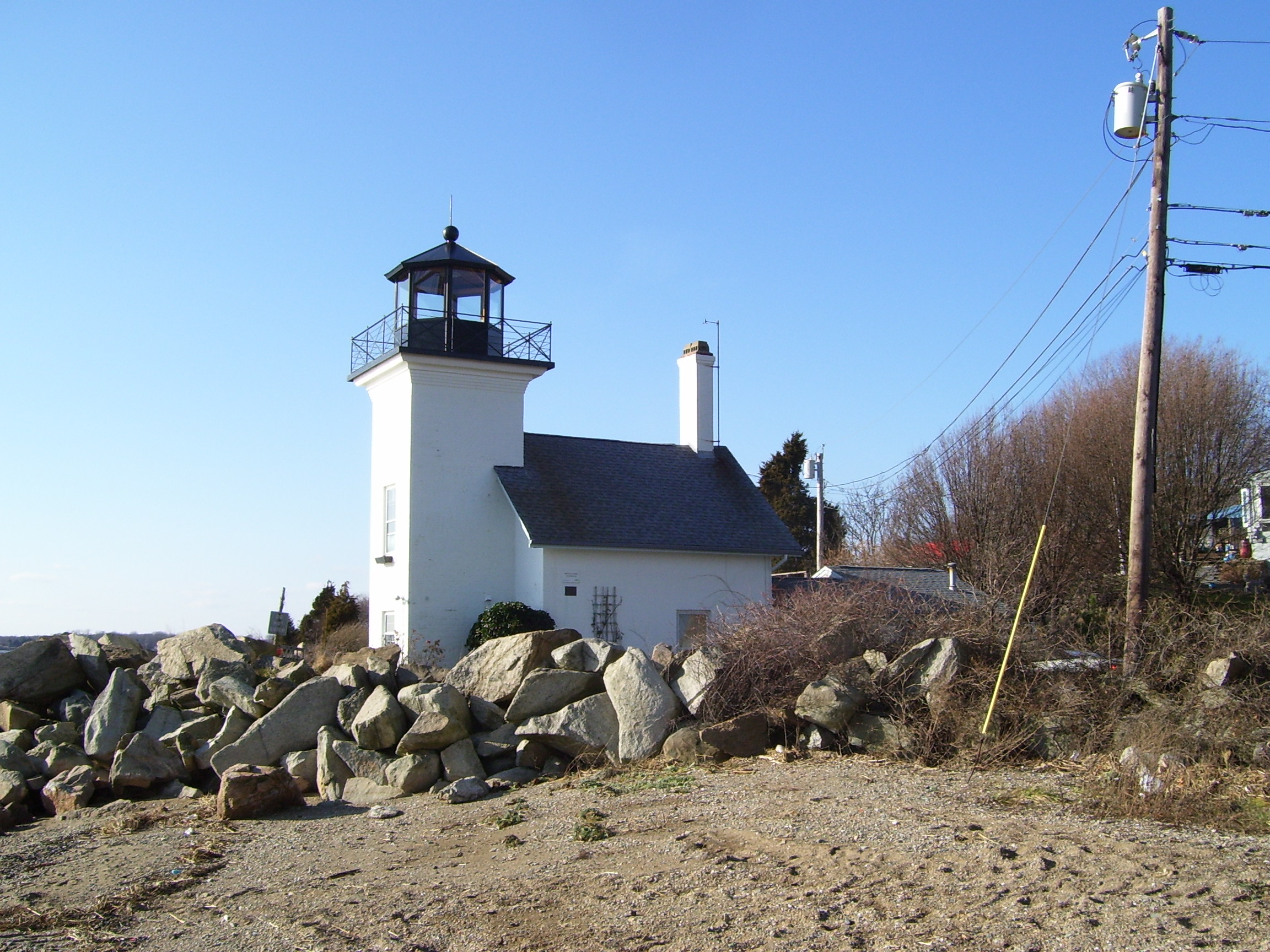 This is my 2008 photo of Bristol Ferry Lighthouse in Rhode Island.